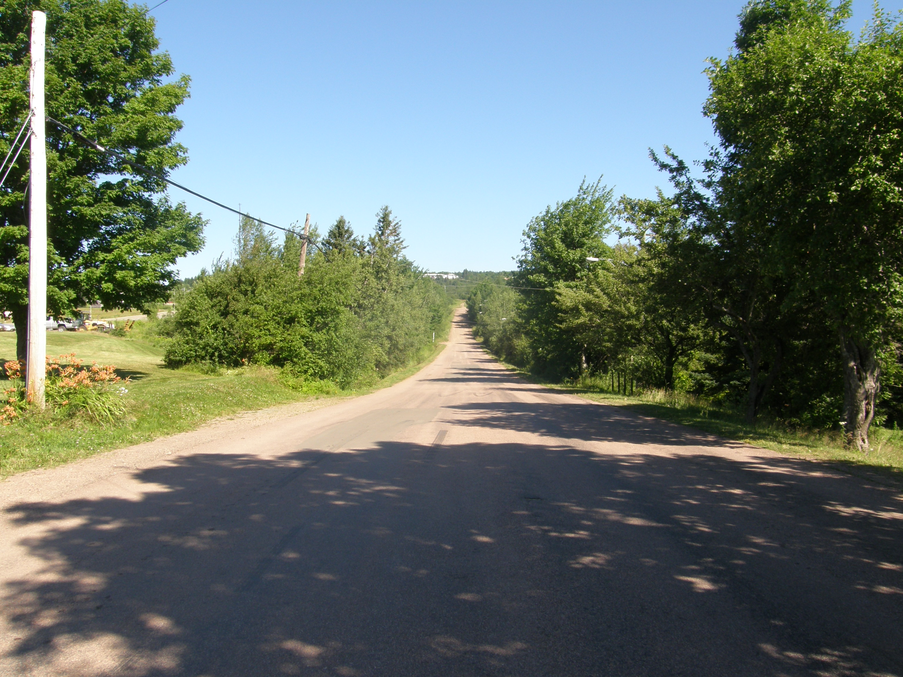 Frontal view of Magnetic Hill in Moncton, New Brunswick. From this perspective, the white post in the middle of the picture appears to be the lowest point in the road.